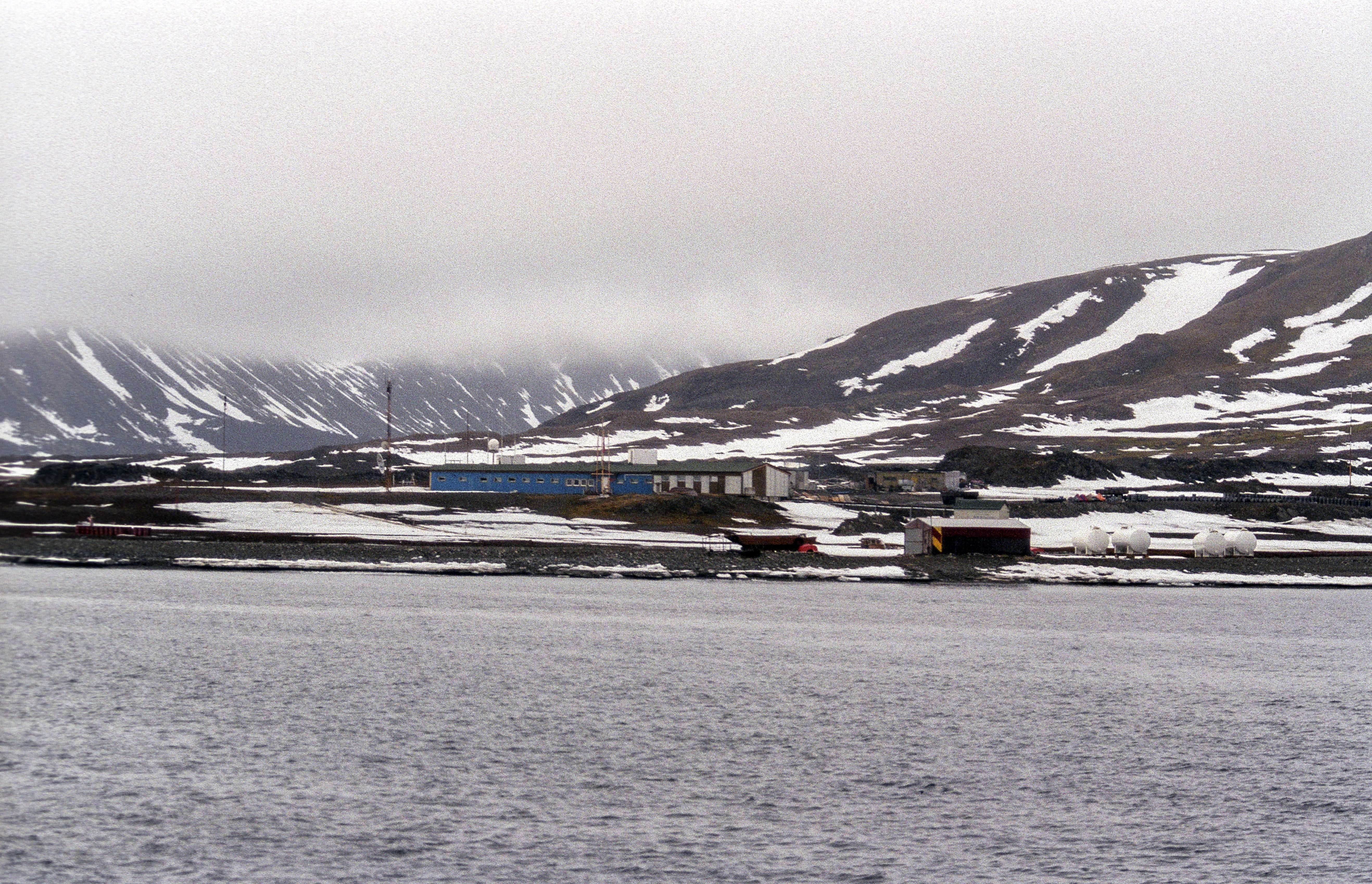 Spitsbergen, Hornsund Polish Arctic Station